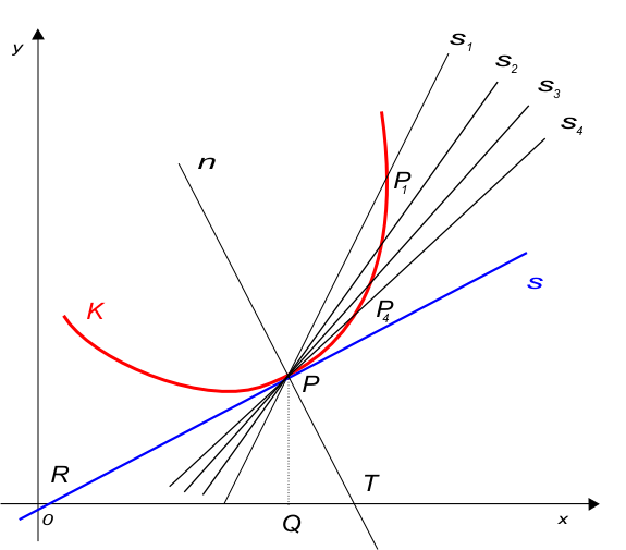 Tangent